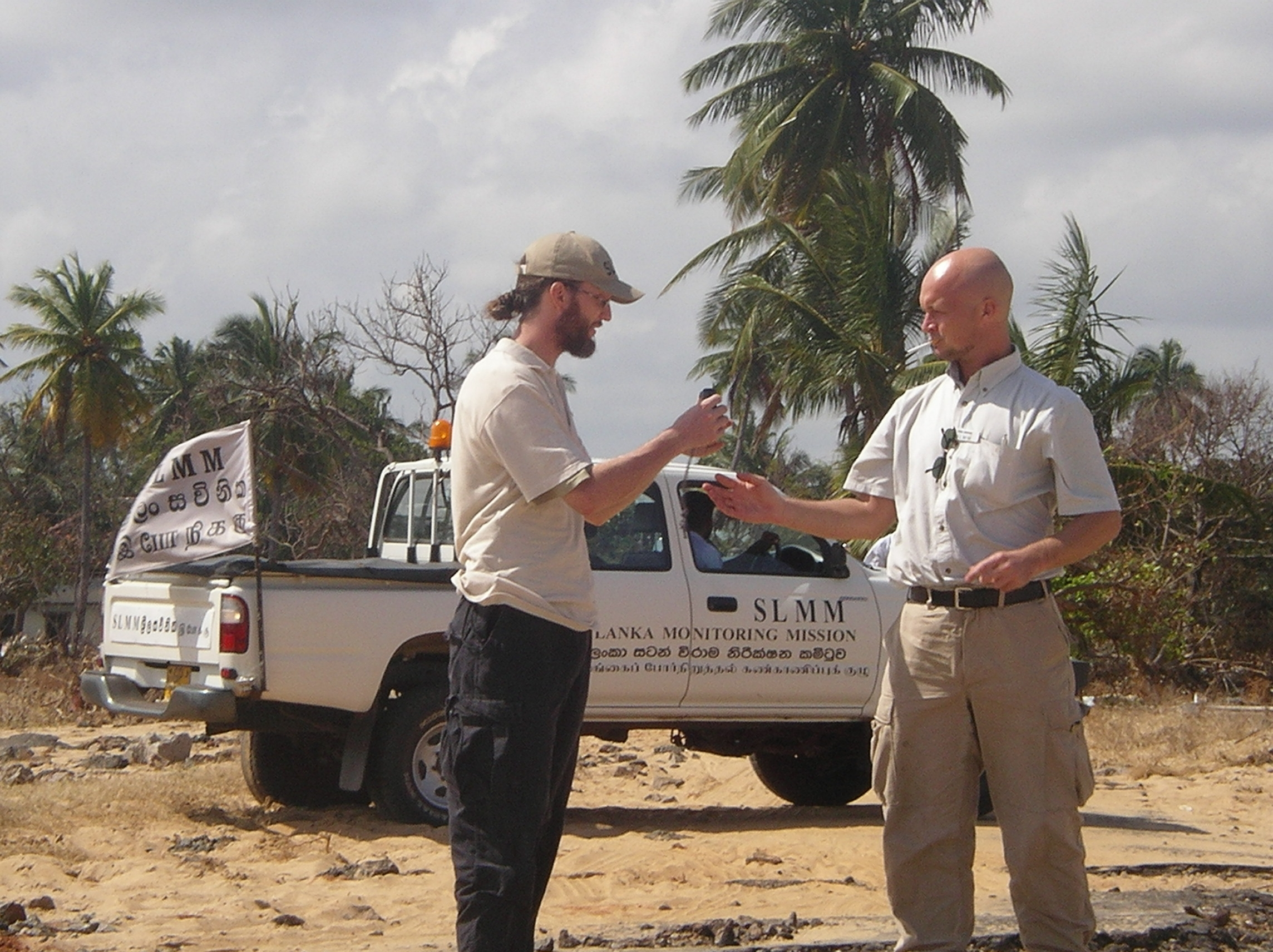 A Sri Lanka Monitoring Mission vehicle in the village Mullaitivu, on the northeast coast of Sri Lanka. Picture taken by myself.